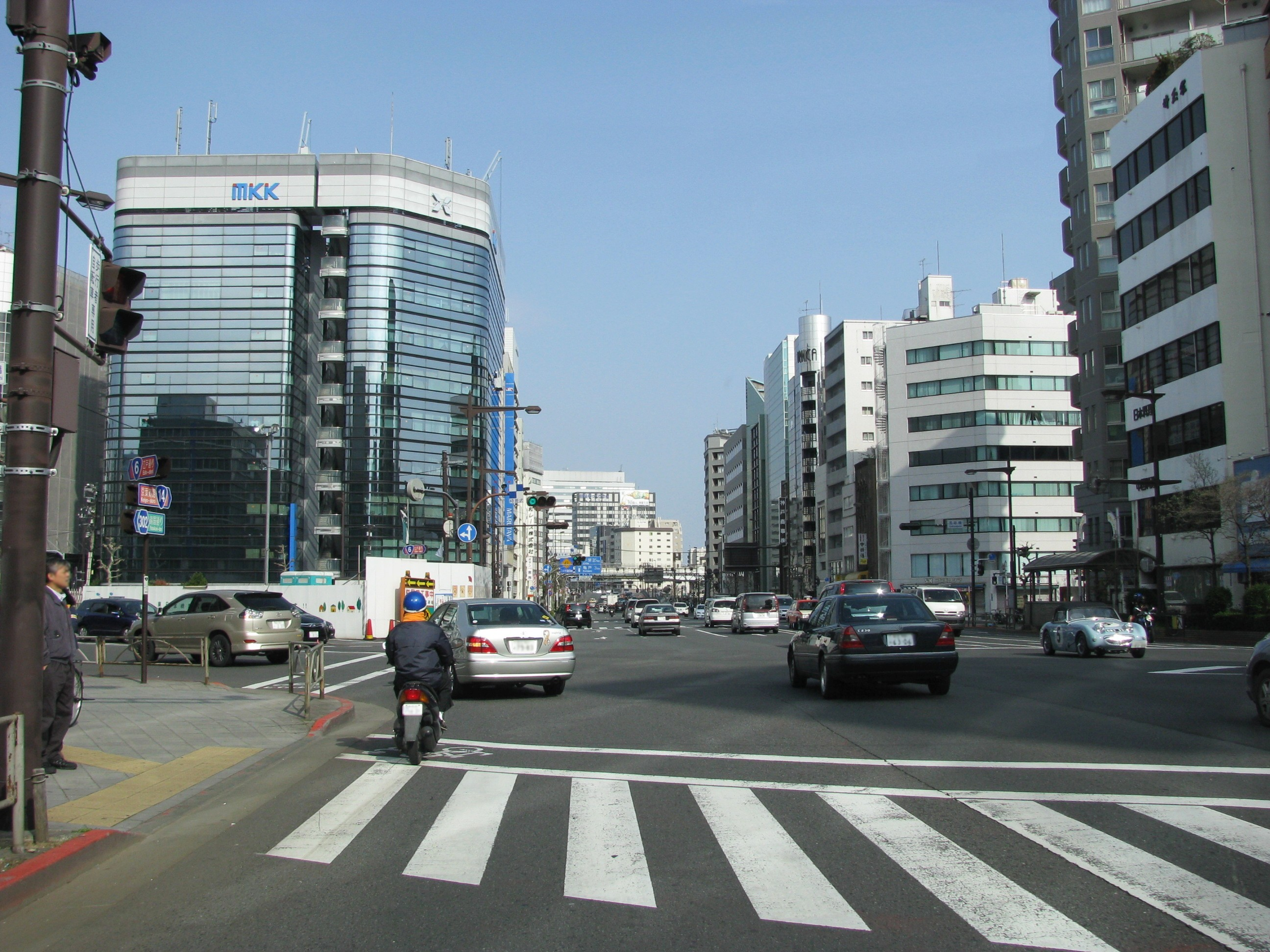 The Japan National Route 14. This located is Nihonbashi-Bakurochō in Chūō, Tokyo, Japan.